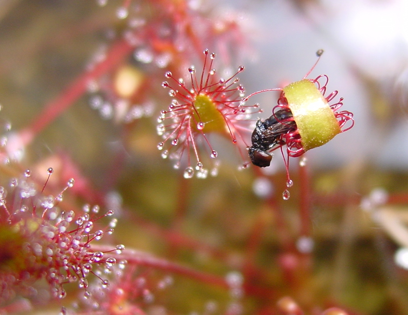 Description: D. anglica with leaf bent around a fly Photo taken by: Noah Elhardt